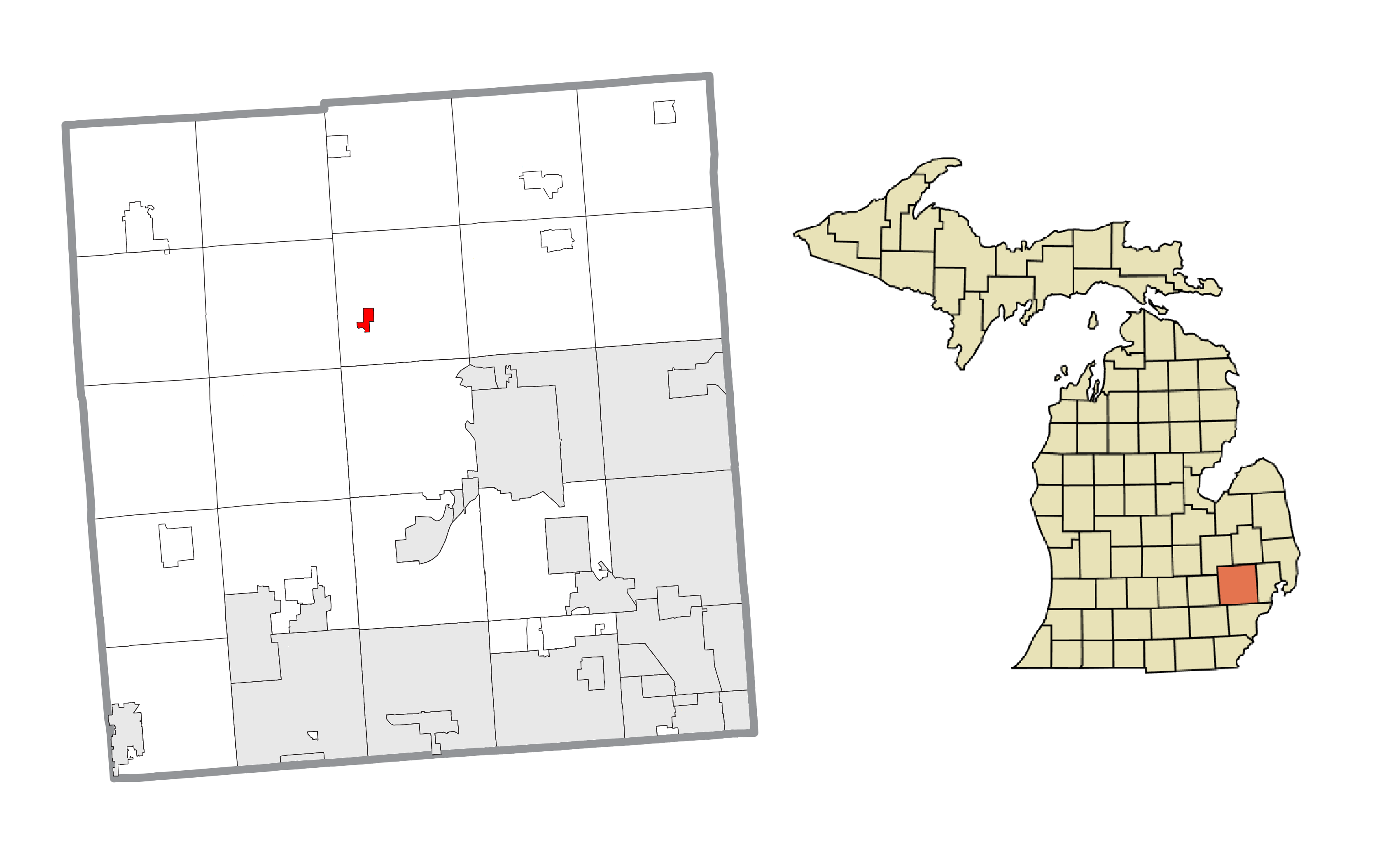 Clarkston, MI